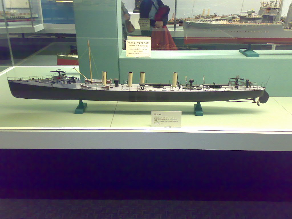 Model of Havoc class destroyer HMS Hornet (1893) at the Glasgow Transport Museum